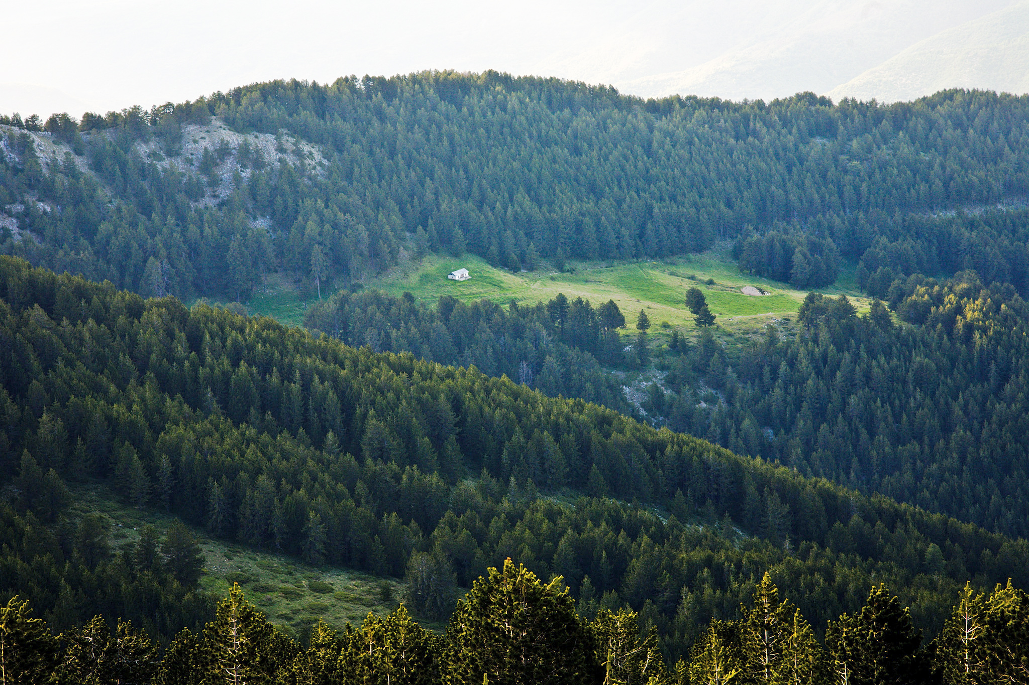 Livadata, a place in Alibotush mountains in Bulgaria